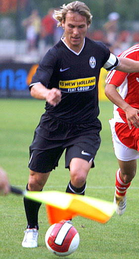 July 2007. FC Juventus summer training ground, Italy. Pavel Nedvěd.